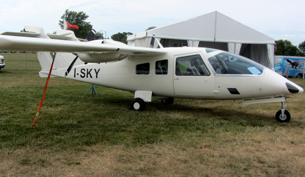 OMA SUD Skycar